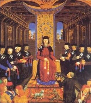 Grand master Pierre d’Aubusson & senior knights hospitaller